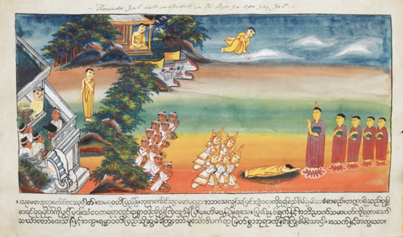 Sumedha receiving a prediction from Dīpankara Buddha, British Library, Mss Burmese 202, f.1